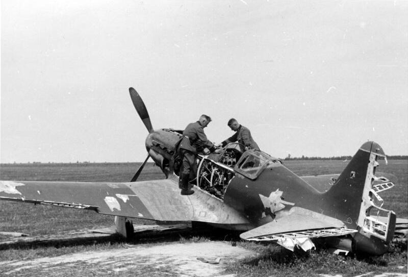 Abandoned Soviet fighter MiG-3 near Białystok, inspected by German soldiers